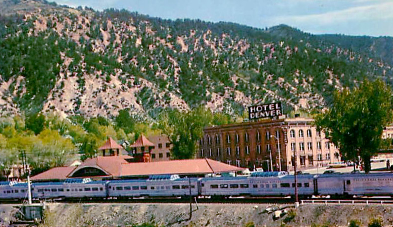 Photo of the California Zephyr at Glenwood Springs, Colorado. The town's Hotel Denver is seen in the background.